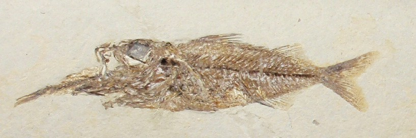 Fossil of Eoholocentrum eating Clupea, extinct fishes